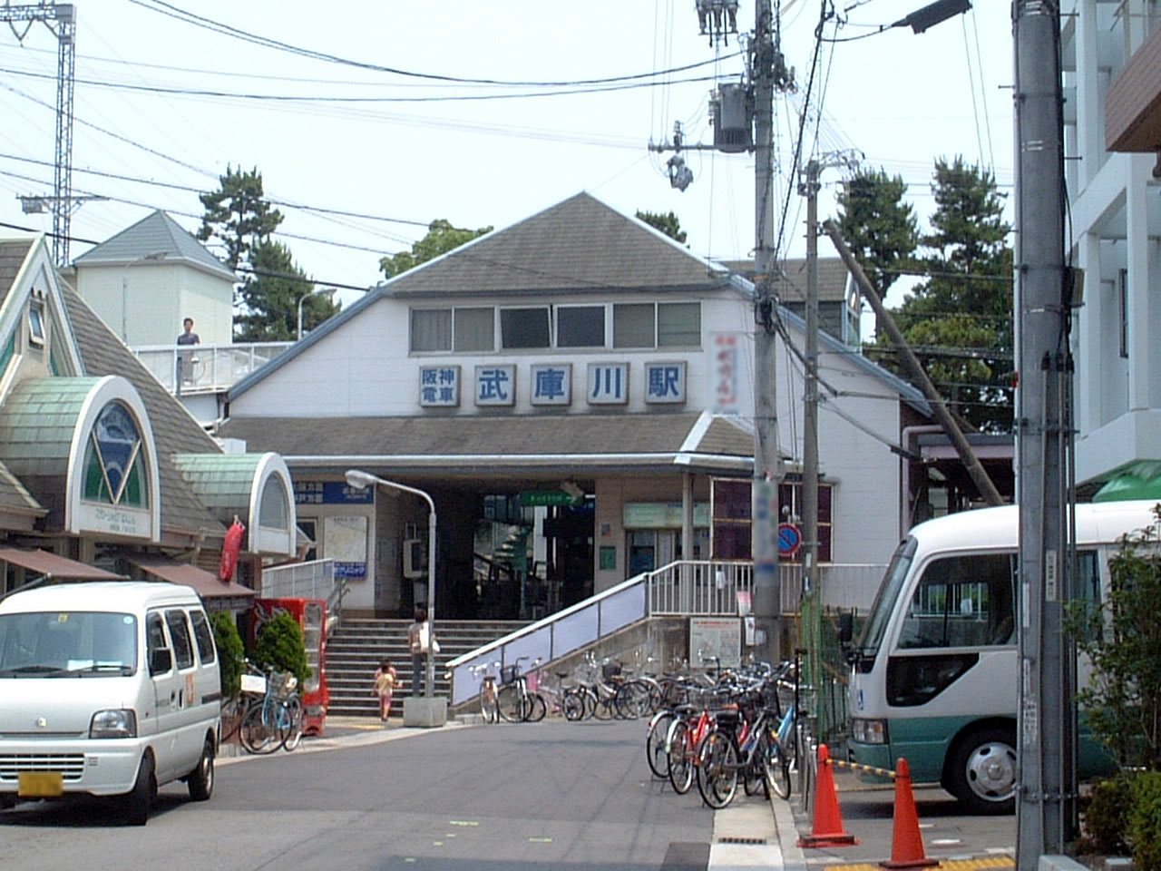 Hanshin Electric Railway Mukogawa Station in Hyogo, Japan